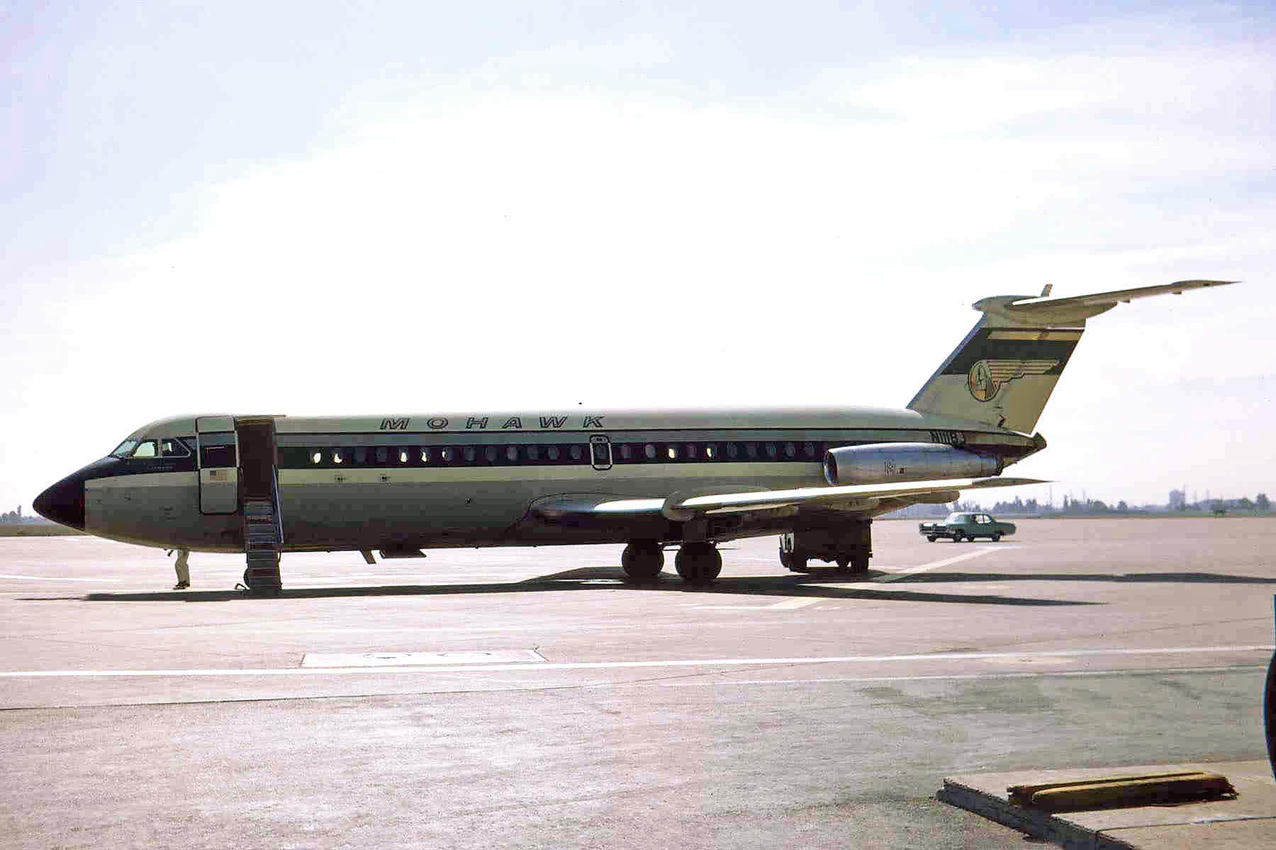 OK! I realise it wasn't taken in 2000 but it's just an odd one from a flying visit in 1969!